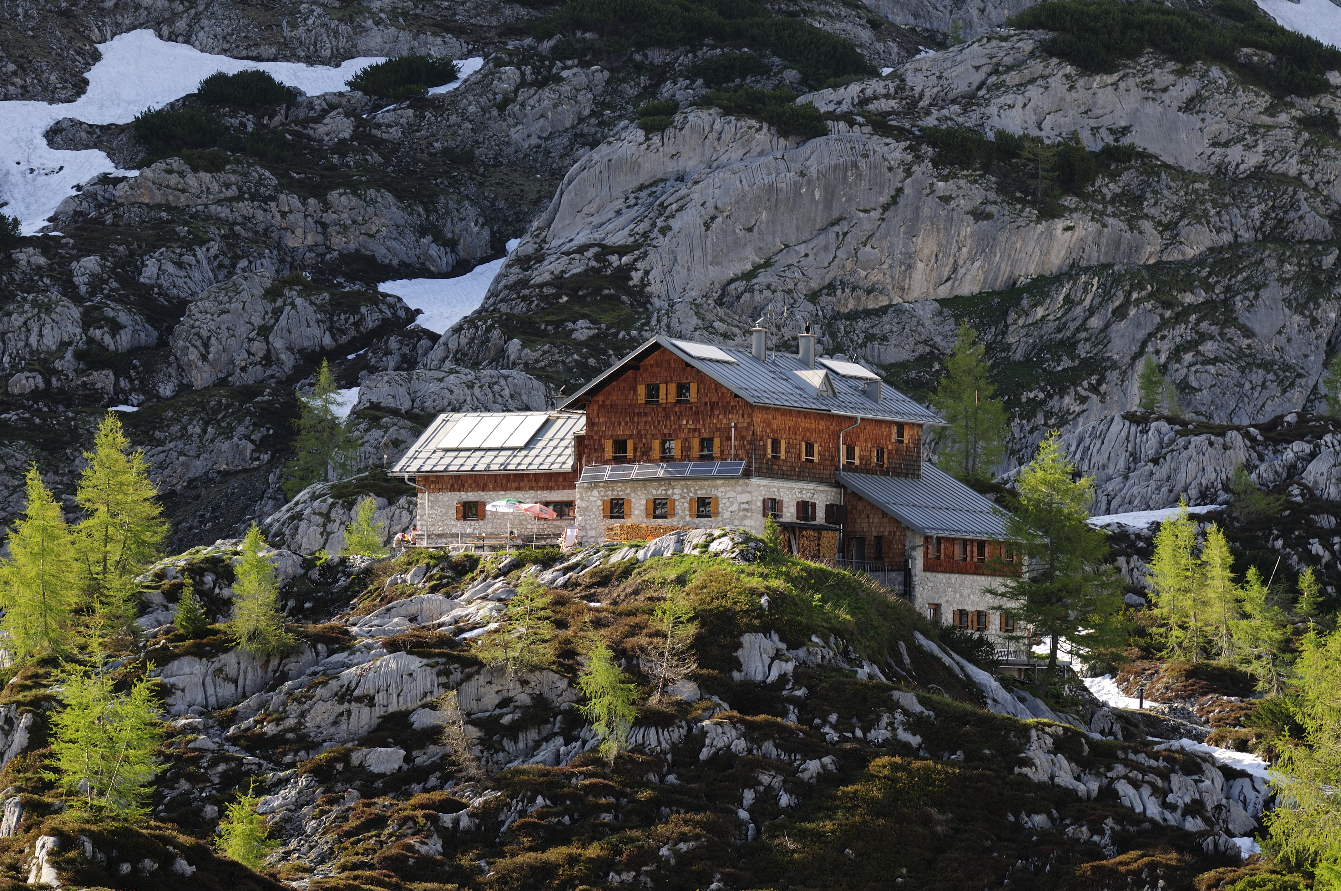 Southern view of the Laufen Hut